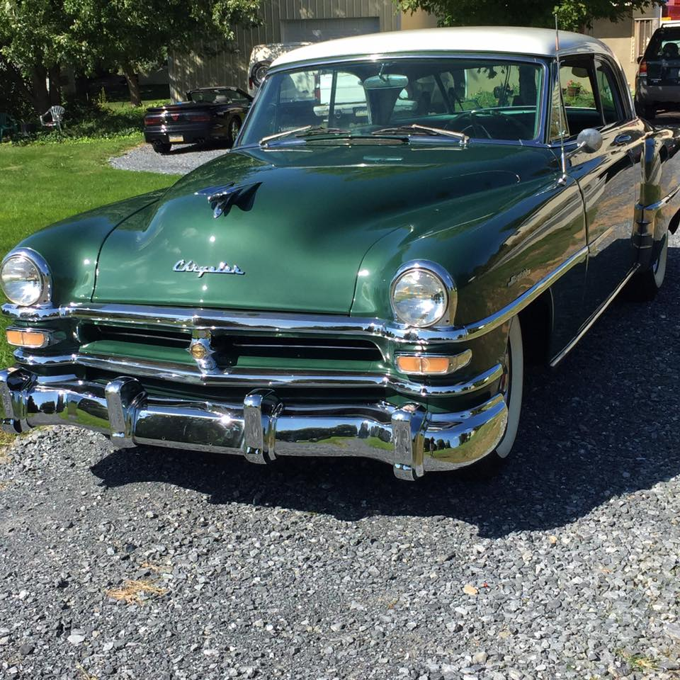 Front of the Windsor Deluxe Newport Coupe